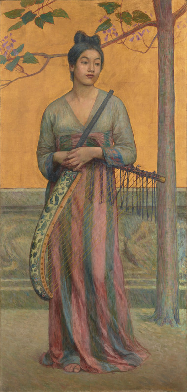 Reminiscence of the Tempyo Era by Fujishima Takeji, Ishibashi Museum of Art, Kurume, Fukuoka, Japan